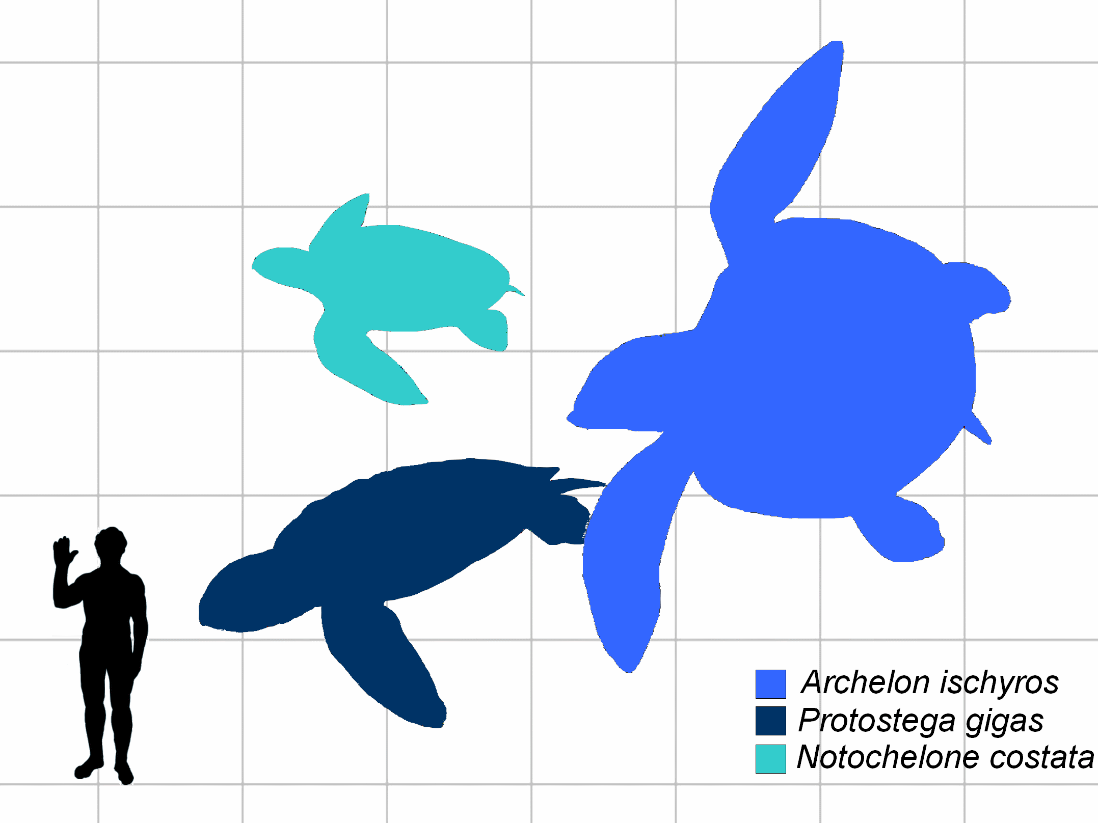 Size comparison of three members of the Protostegidae family : Protostega gigas, Archelon ischyros, and Notochelone costata, with a human scale. Own work after the pictures : File:Archelon BW.jpg ; File:Protostega gig1DB.jpg ; and File:Notochelone1DB.jpg